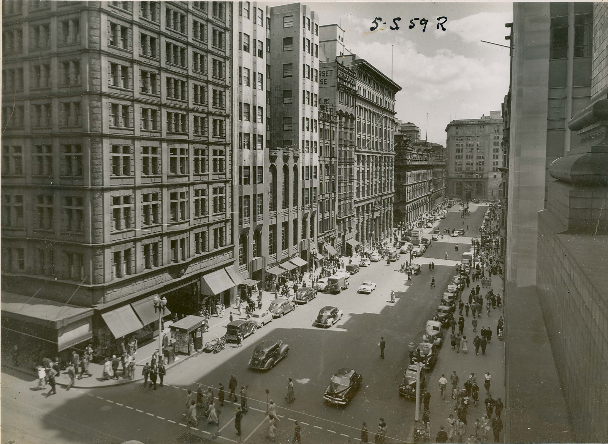 Title: View of Martin Place from Castlereagh St, Sydney (NSW). The building on the left is the Commercial Travellers' Club, with the Hotel Australia beside it. Both were demolished in the early 1970s. Dated: Date or use No date Digital ID: 12932-a012-a012X2442000045 Rights: We'd love to hear from you if you use our photos/documents. Many other photos in our collection are available to view and browse on our website using Photo Investigator.